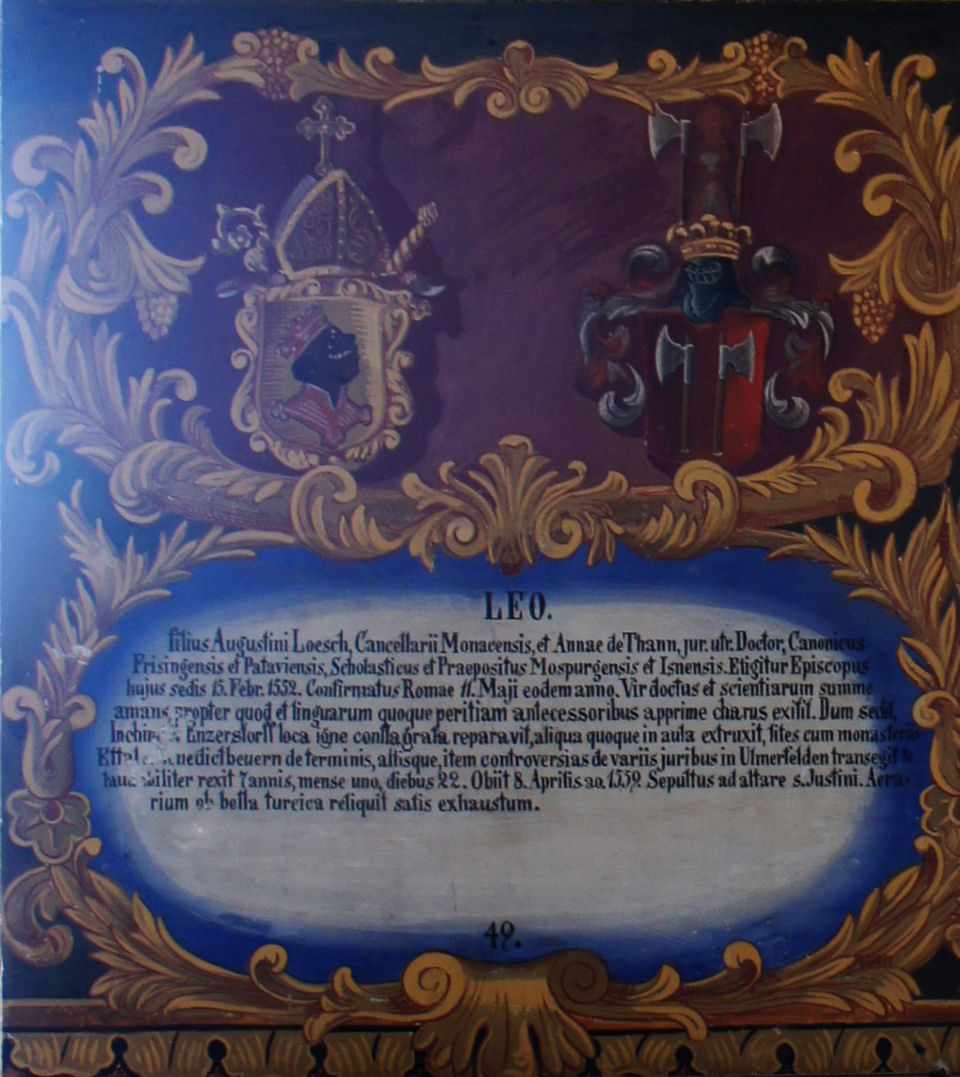 Wappentafel von Leo Lösch von Hilkertshausen, Fürstbischof von Freising, im Fürstengang zwischen Fürstbischöflicher Residenz und Freisinger Dom. Links das geistliche, rechts das persönliche Wappen, darunter ein lateinischer Text mit kurzer Biographie.